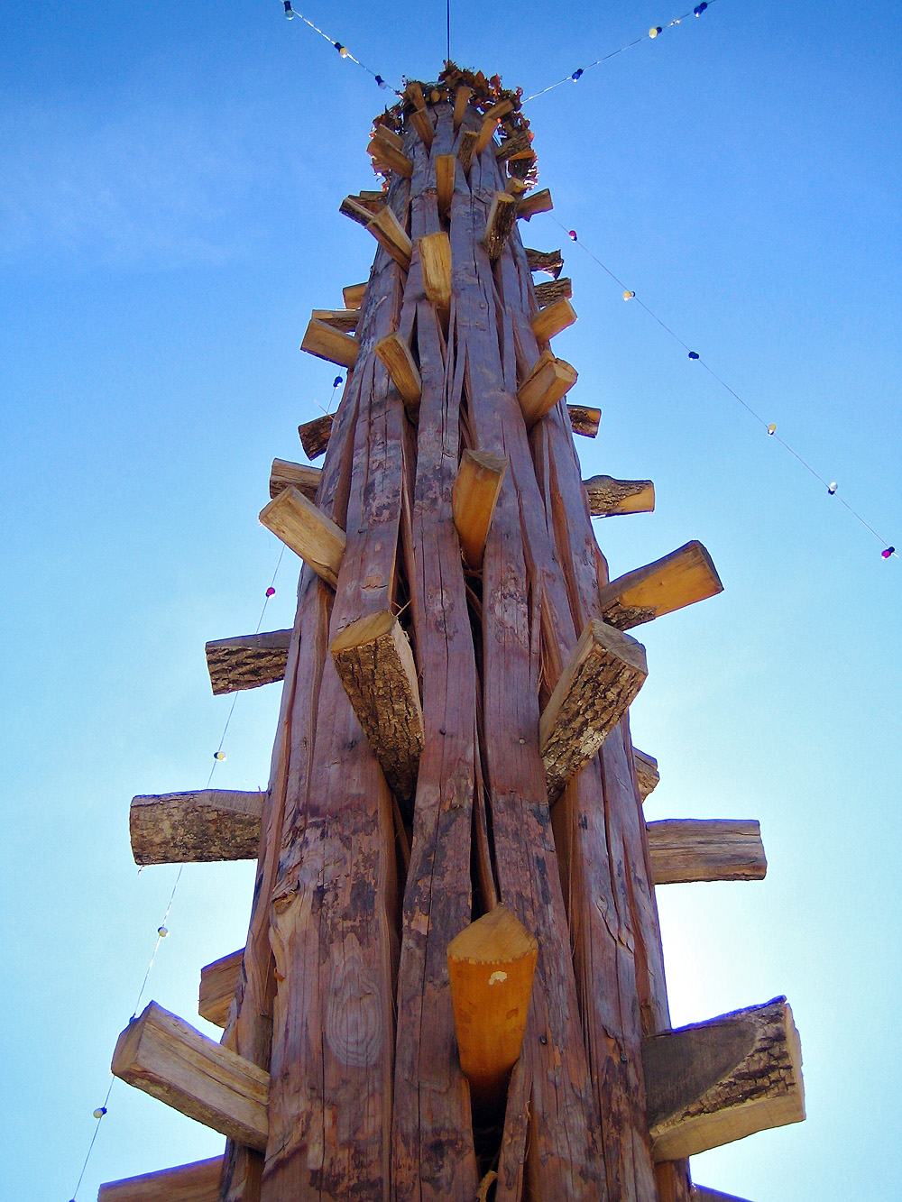 Haro de Les, Val d'Aran, Spanish Occitania